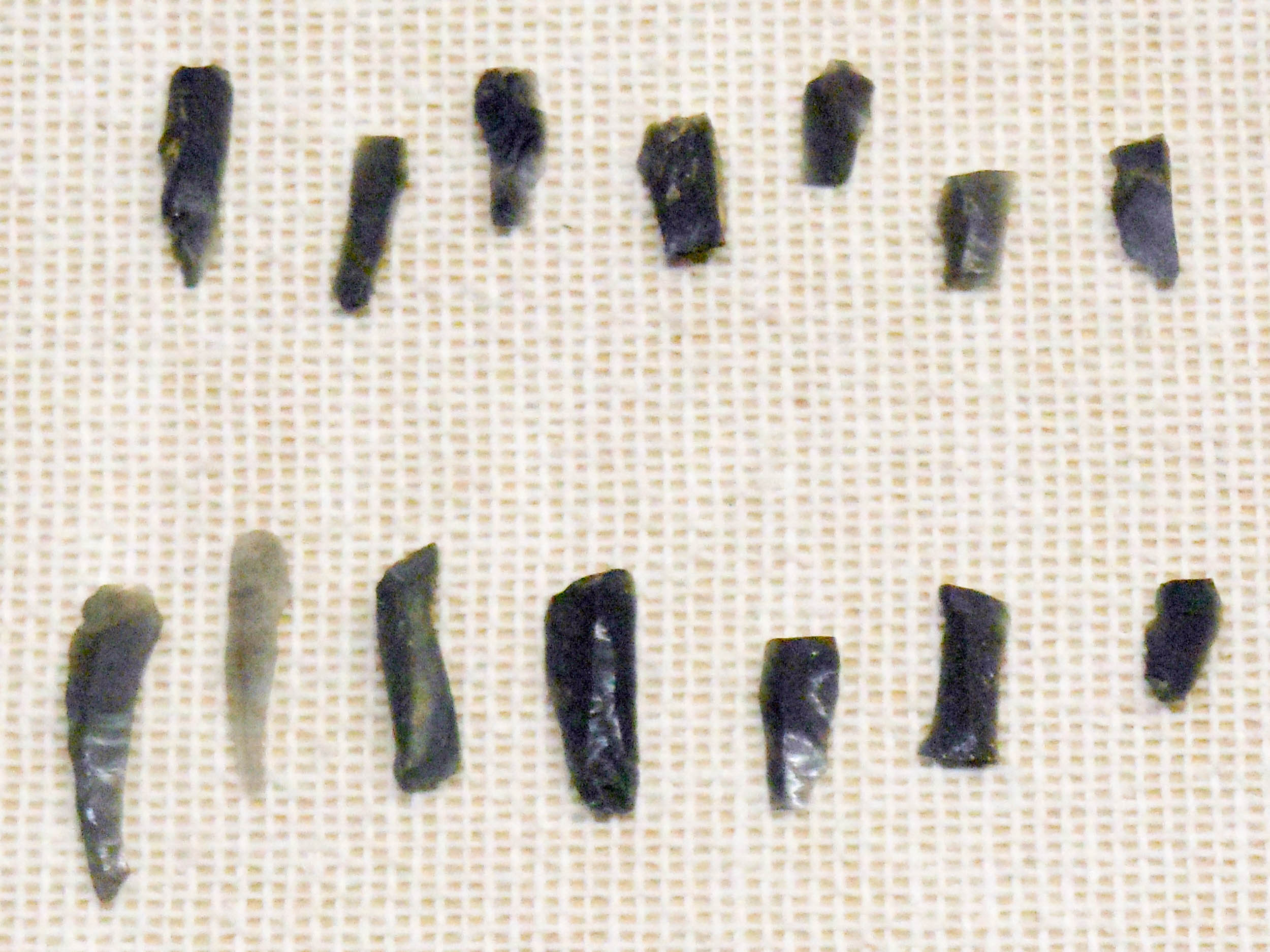 Obsidian blades(microliths), excavated from Shirohebiyama-Iwakage site in Imari city, Saga prefecture, Japan. These are made in 13 - 12ka., beginning of the Jōmon period. Display:Saga Prefectural Museum.